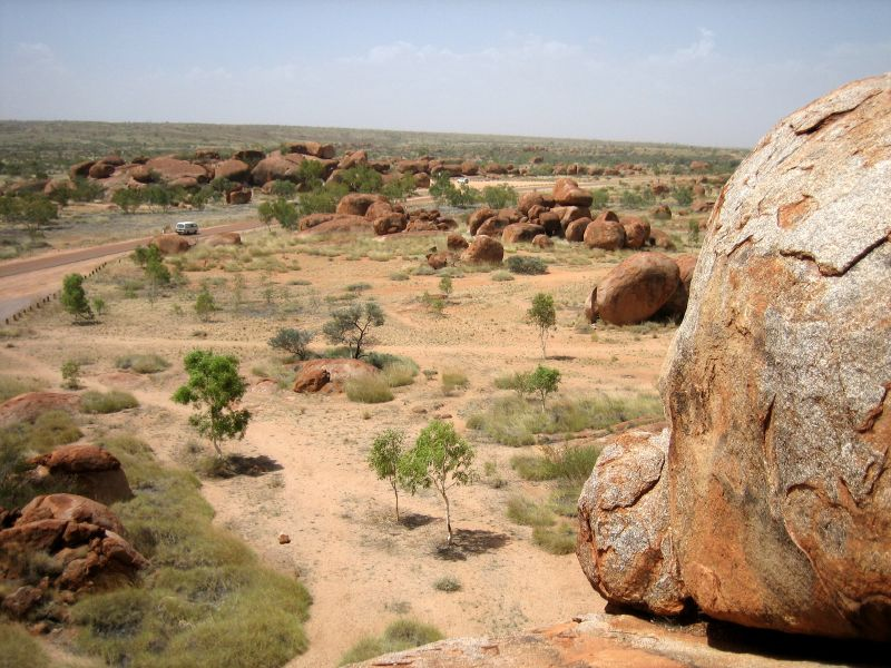 Devil's Marbles, Australia.